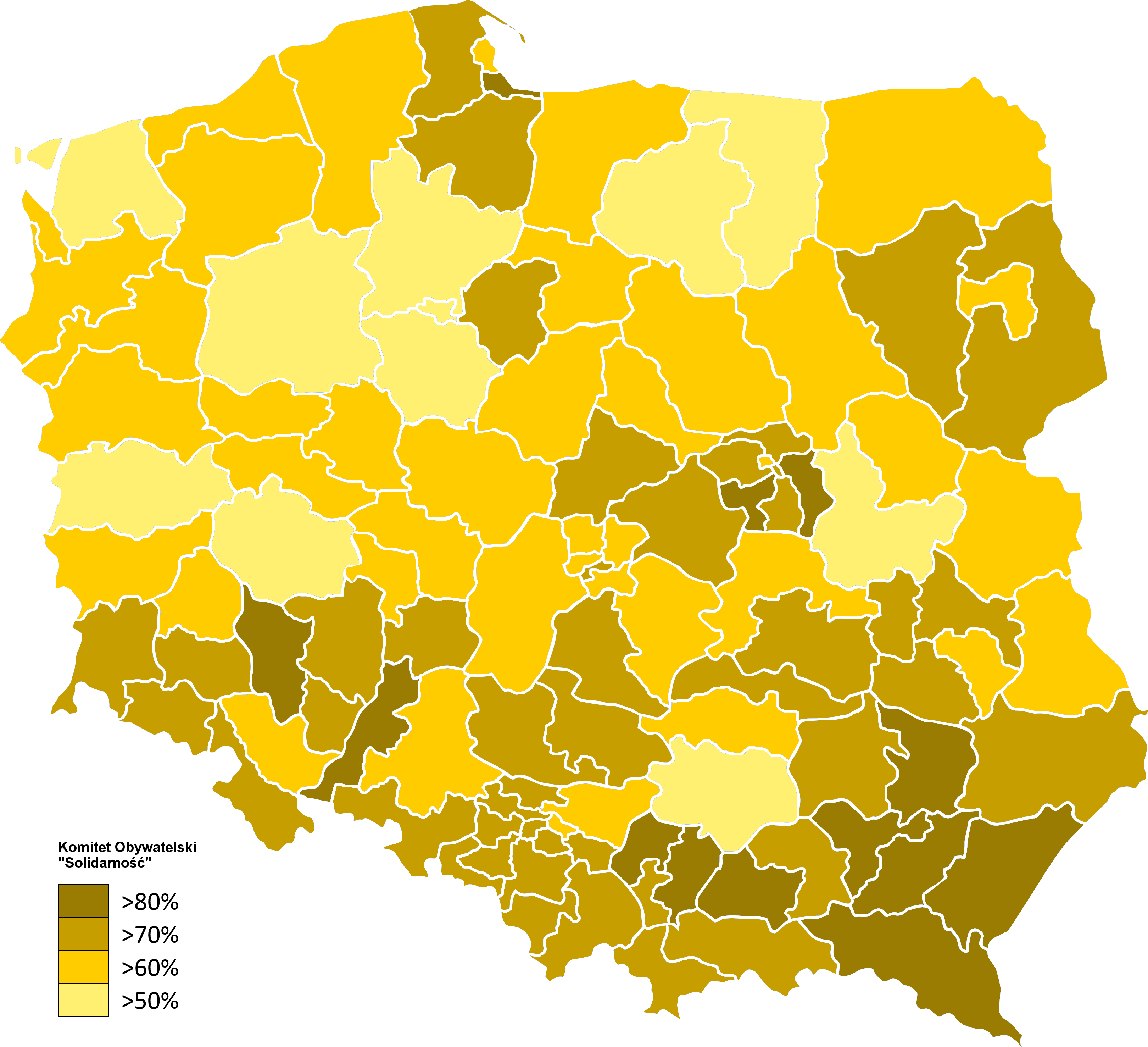 Results of 1989 Polish legislative elections - votes on Solidarity by constituency